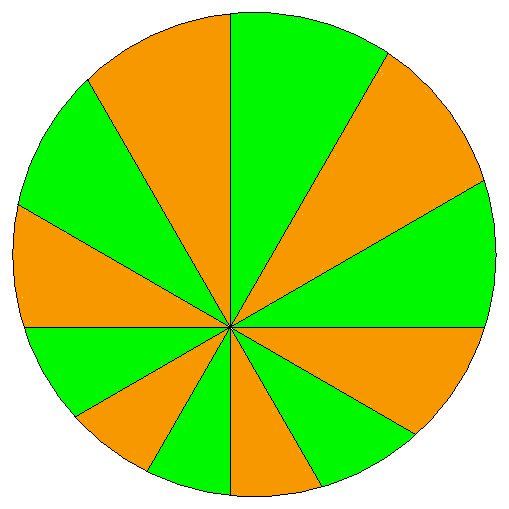 illustration of the pizza theorem 12 slices